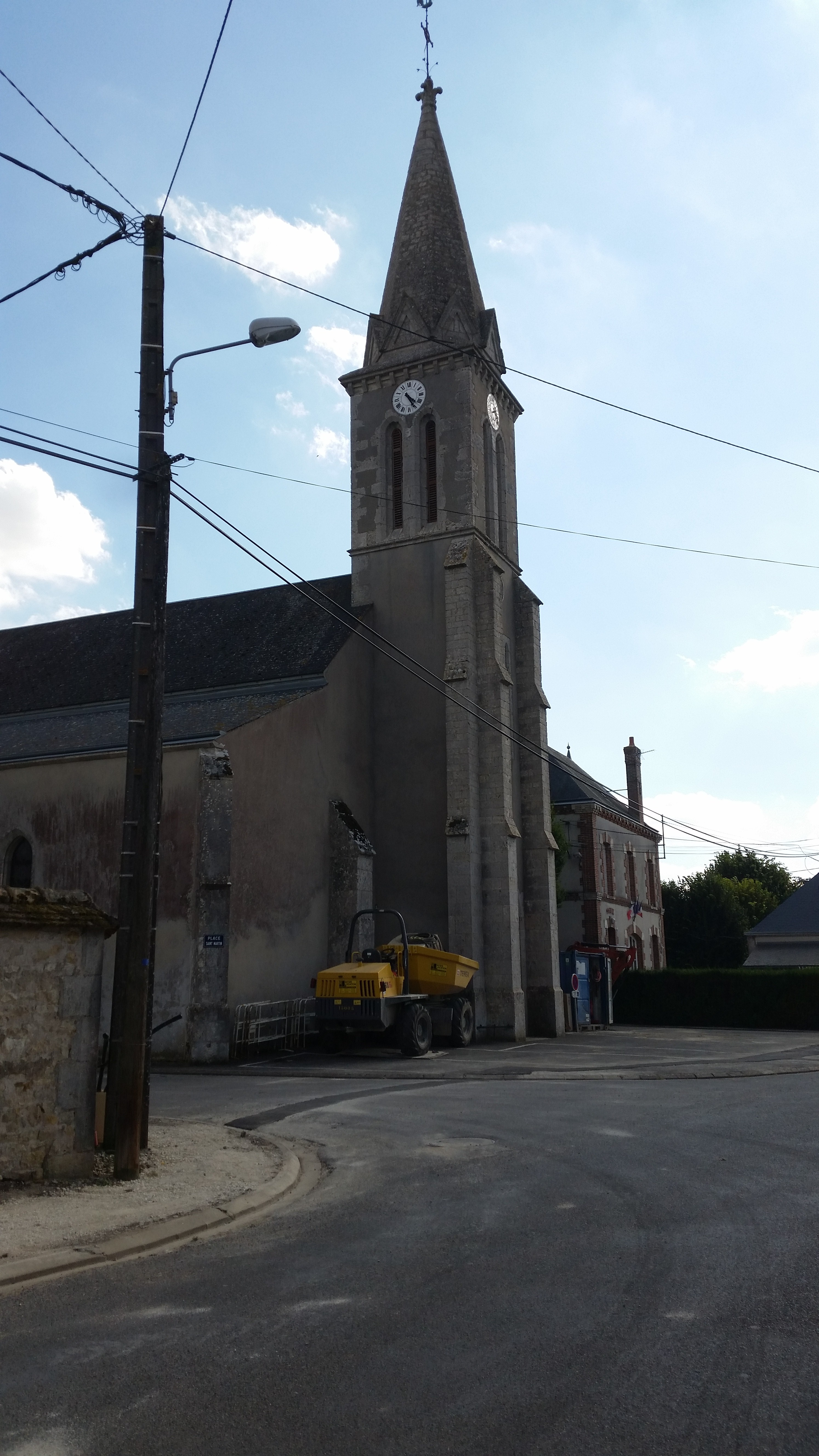 The Place Saint-Martin and the church of Ozoir-le-Breuil, Eure-et-Loir, France.